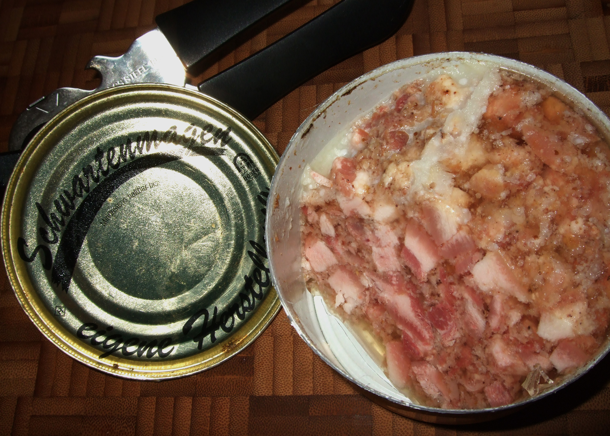 This image shows Head Cheese in it's German Version "Schwartenmagen", a type of "Hausmacher Wurst"